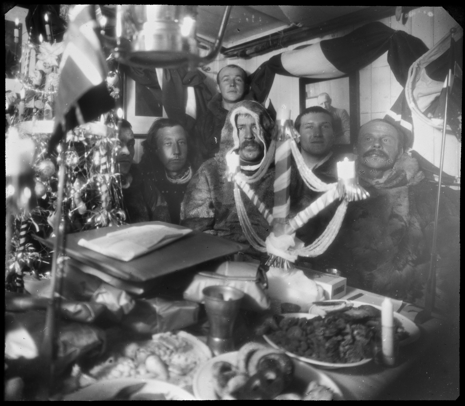 Christmas celebration in Gjoa Haven, 1903